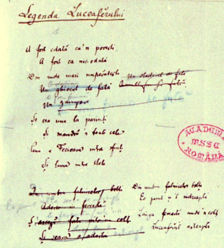 Opening stanzas of the manuscript Legenda Luceafĕrului, an intermediary form of the poem Luceafărul.